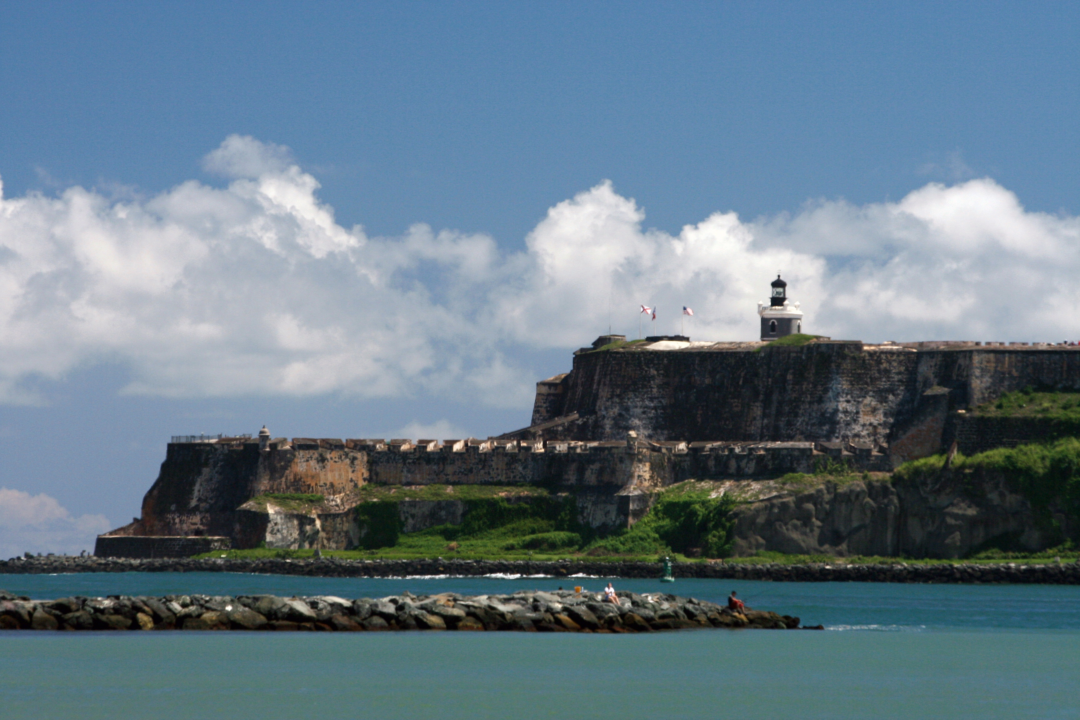 VIEW OF EL MORRO CASTLE IN SAN JUAN